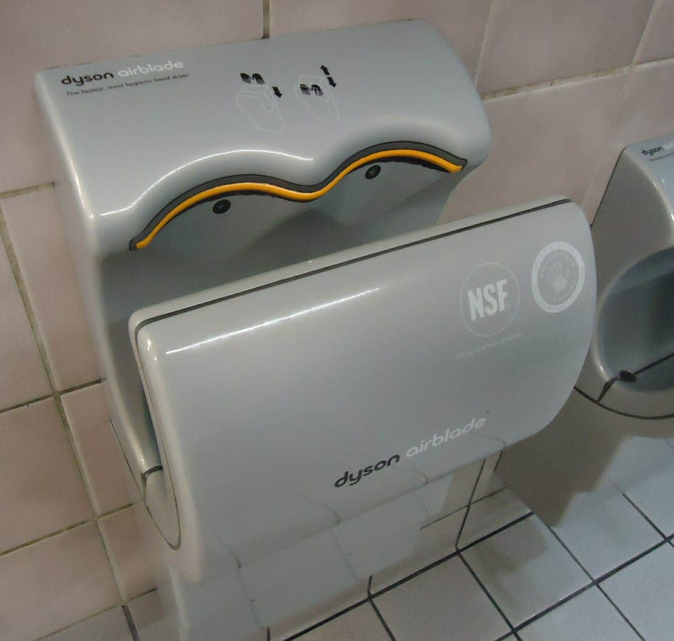 A machine to dry hands quickly in a lavatory. Hands are placed in the two openings, and the machine begins automatically; it dries them quickly, with less noise.